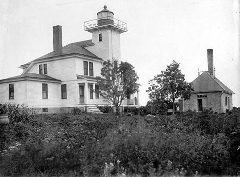 Public Domain statement here; The Raspberry Island Lighthouse is a lighthouse located on the southern part of Raspberry Island, marking the west channel of the Apostle Islands in Lake Superior in Bayfield County, Wisconsin, near the city of Bayfield.